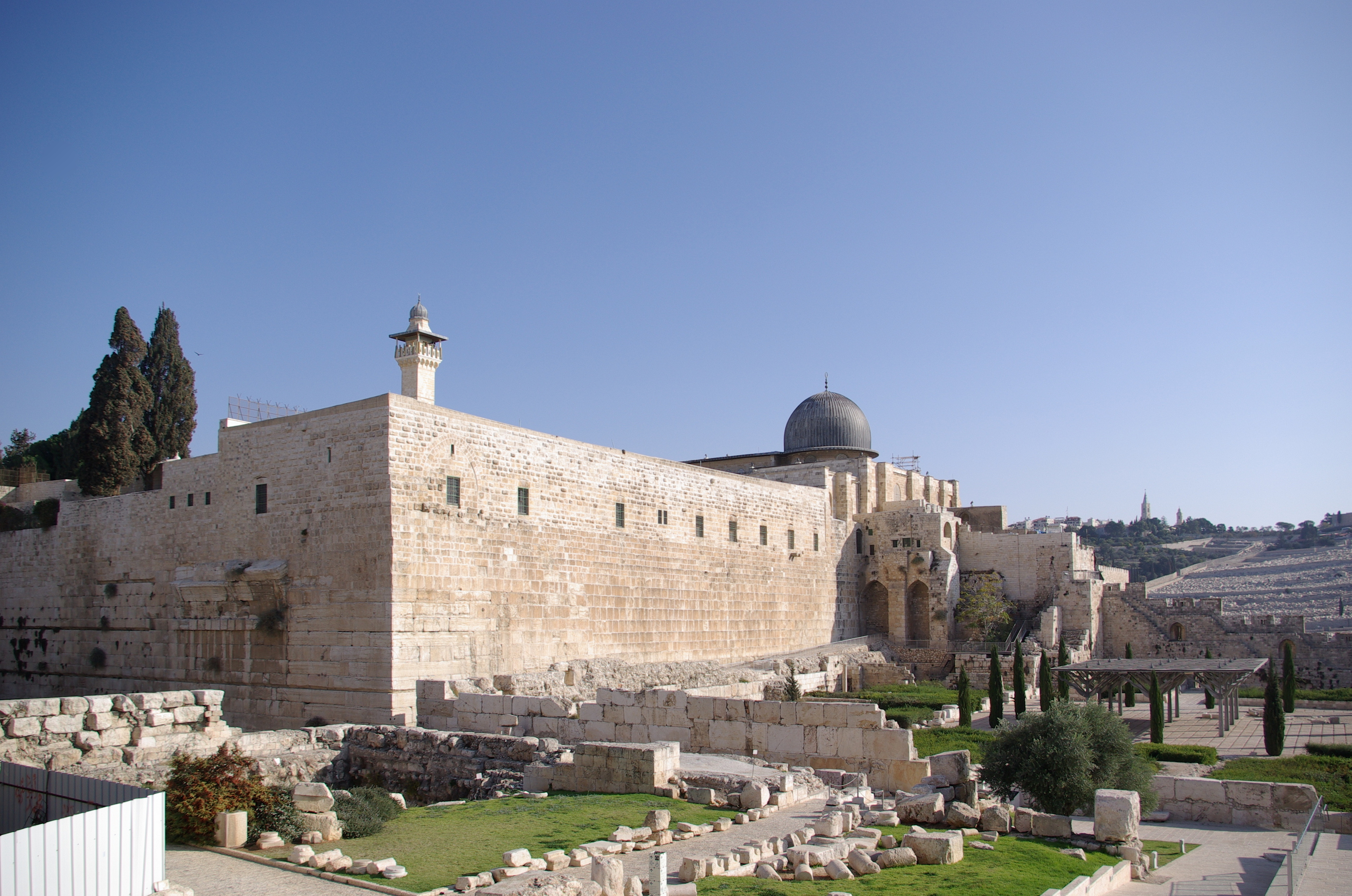 Jerusalem, Mount Moriah, Southern Wall